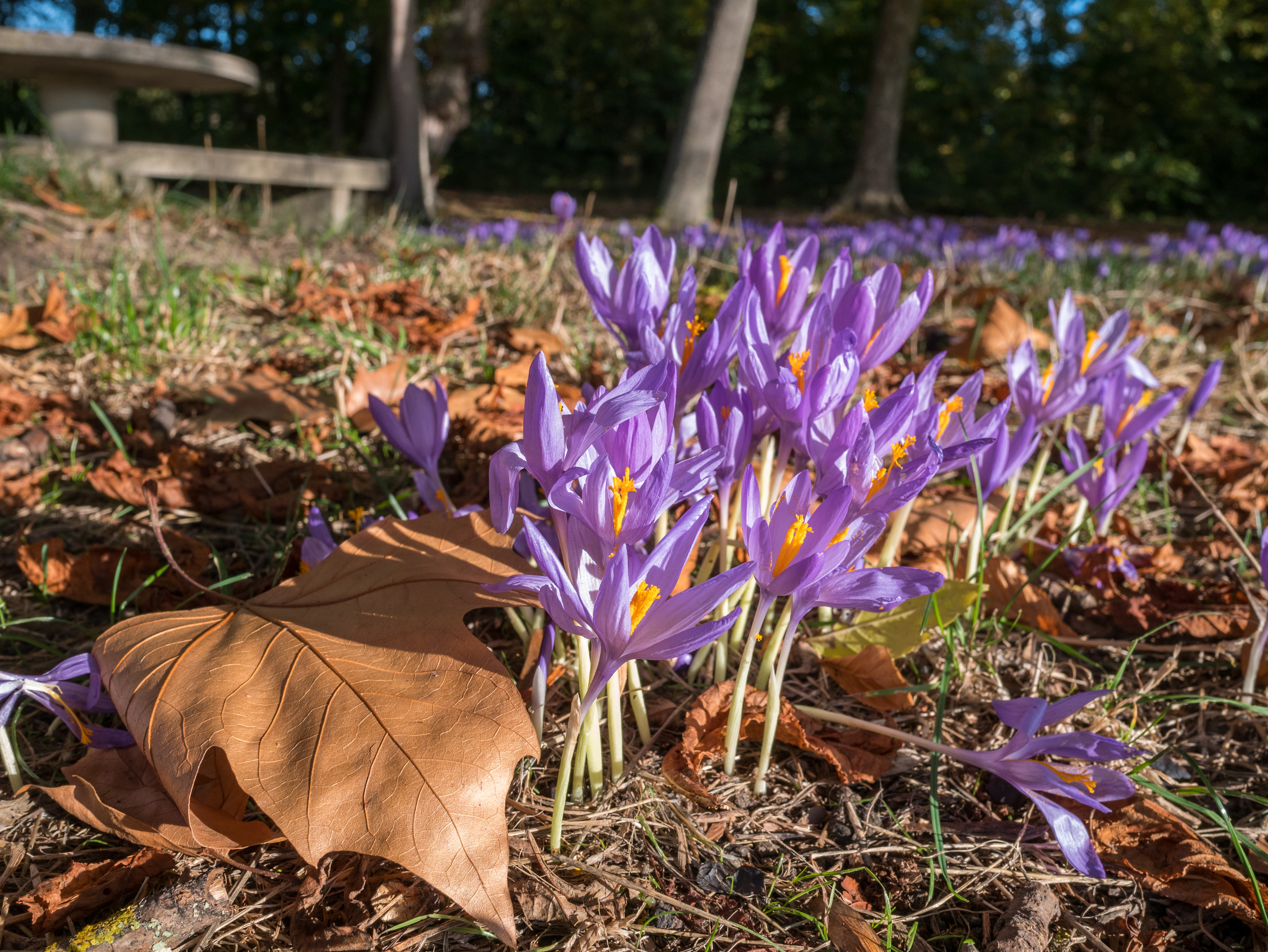 Wild saffron (Crocus nudiflorus) Olarizu Park. Vitoria-Gasteiz, Basque Country, Spain